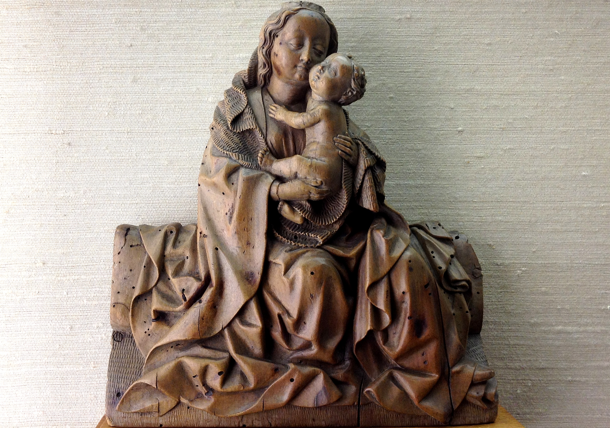 Madonna and Child, comes from the atelier of Hans Multscher, estimated around 1450, Main-Franconian Museum, Fortress of Marienberg, Würzburg, Germany